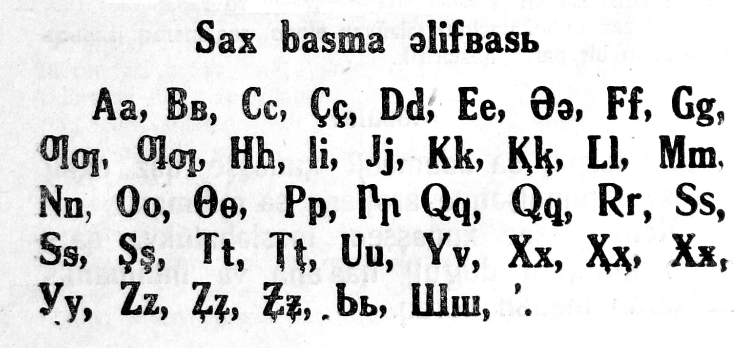 Scan from Tsakhur book